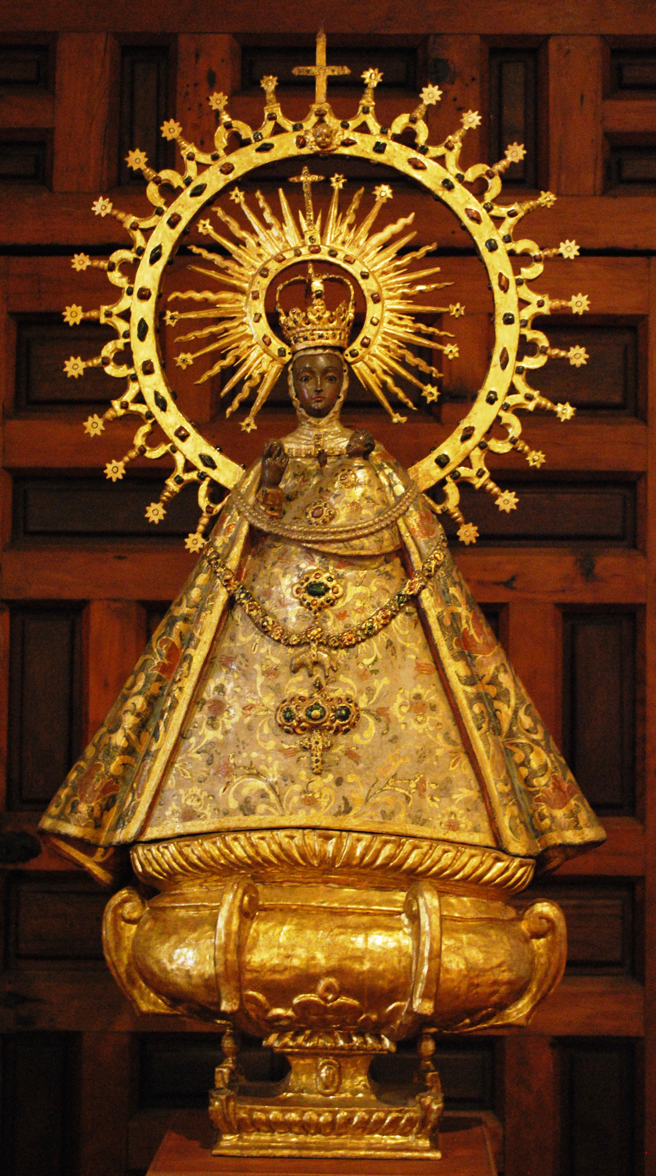 Figure of "Virgen de Atocha" at the Museo Nacional de las Intervenciones (ex Monastery of Churubusco) in Coyoacan borough, Mexico City